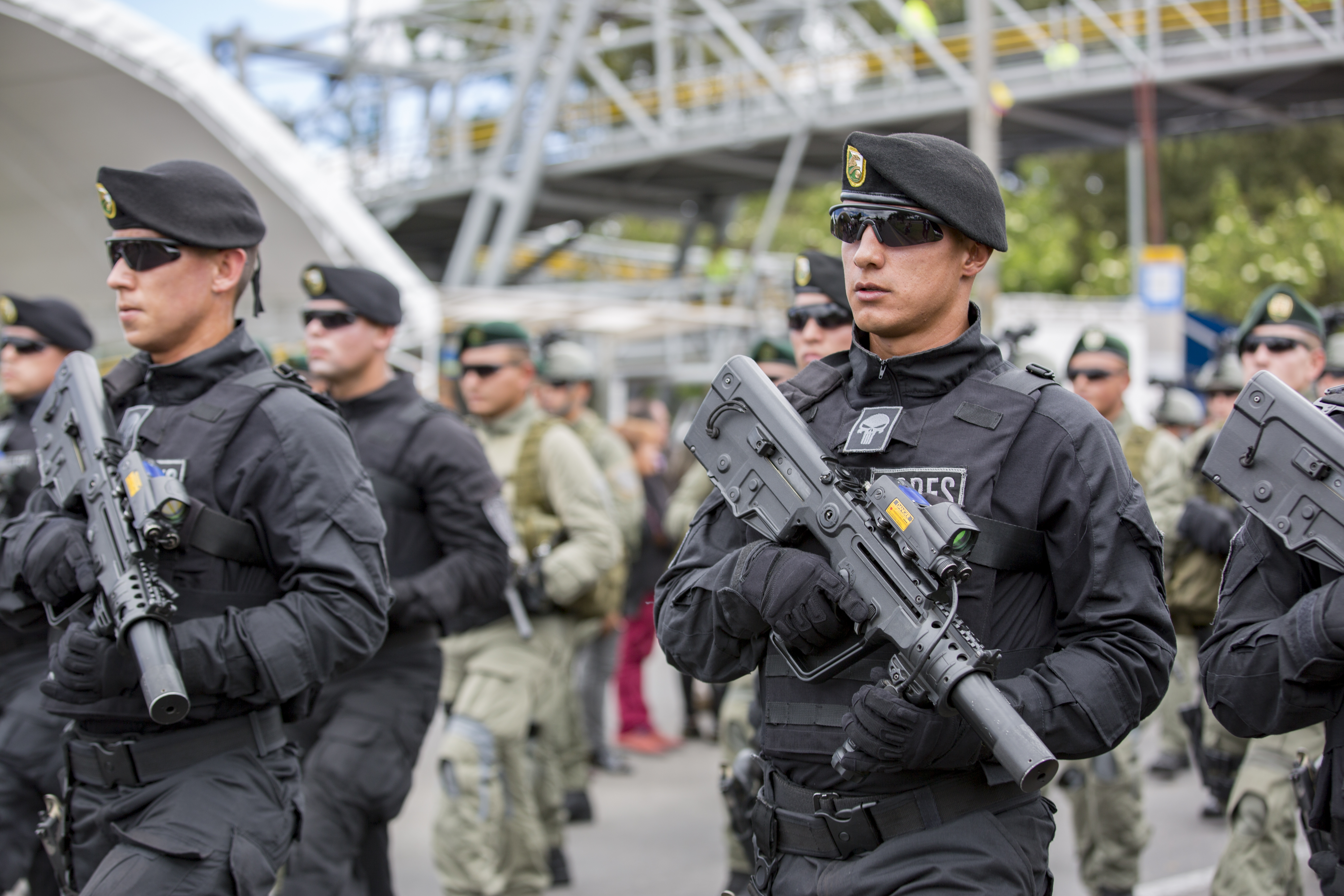 Celebrations of the 207th anniversary of the Colombian Declaration of Independence (1810) on July 20, 2017, along Avenida 68 in Bogotá, Colombia